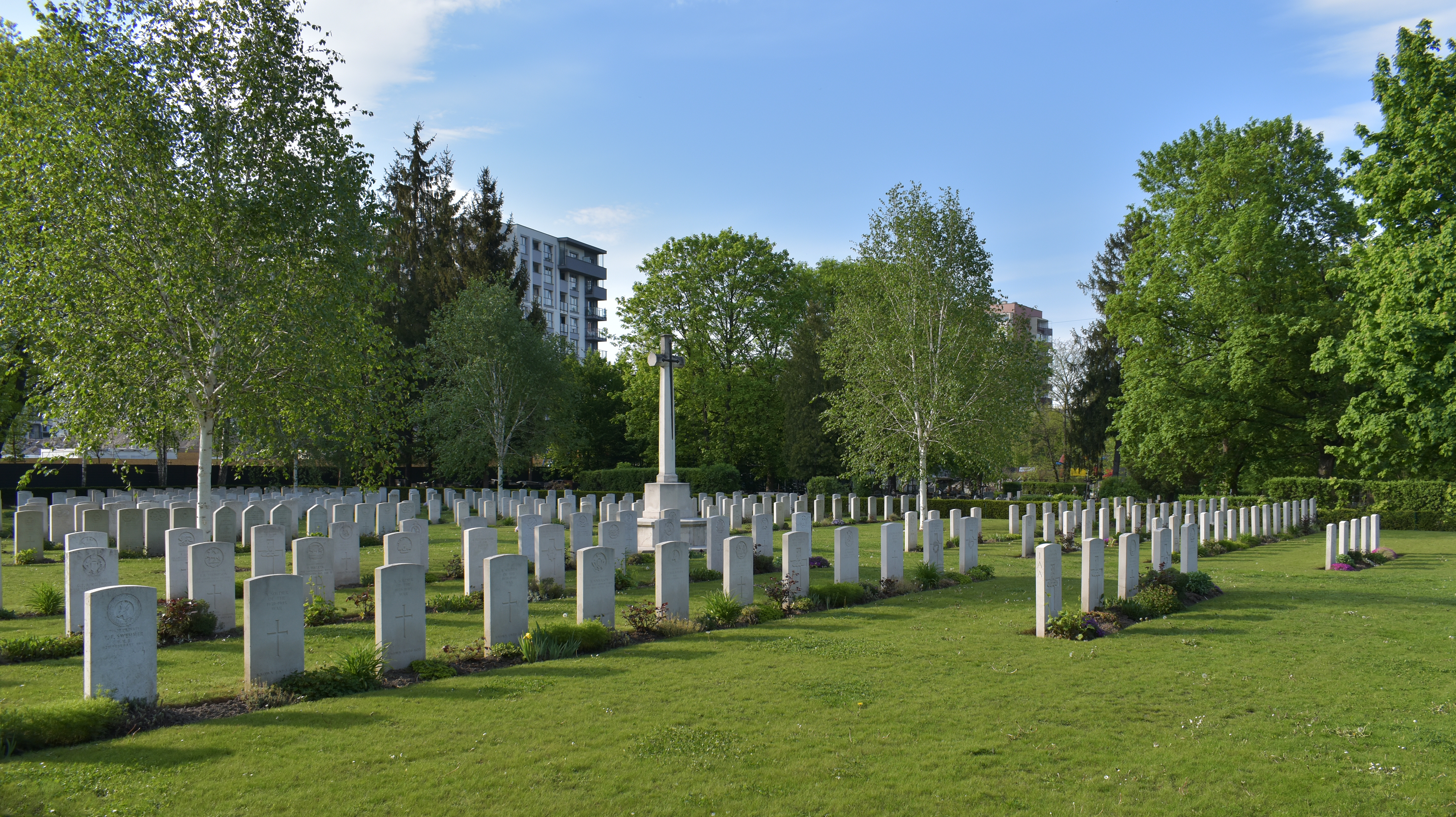 Krakow Military Cemetery, Commonwealth section WWII, ul. Prandoty 1, Kraków, Poland